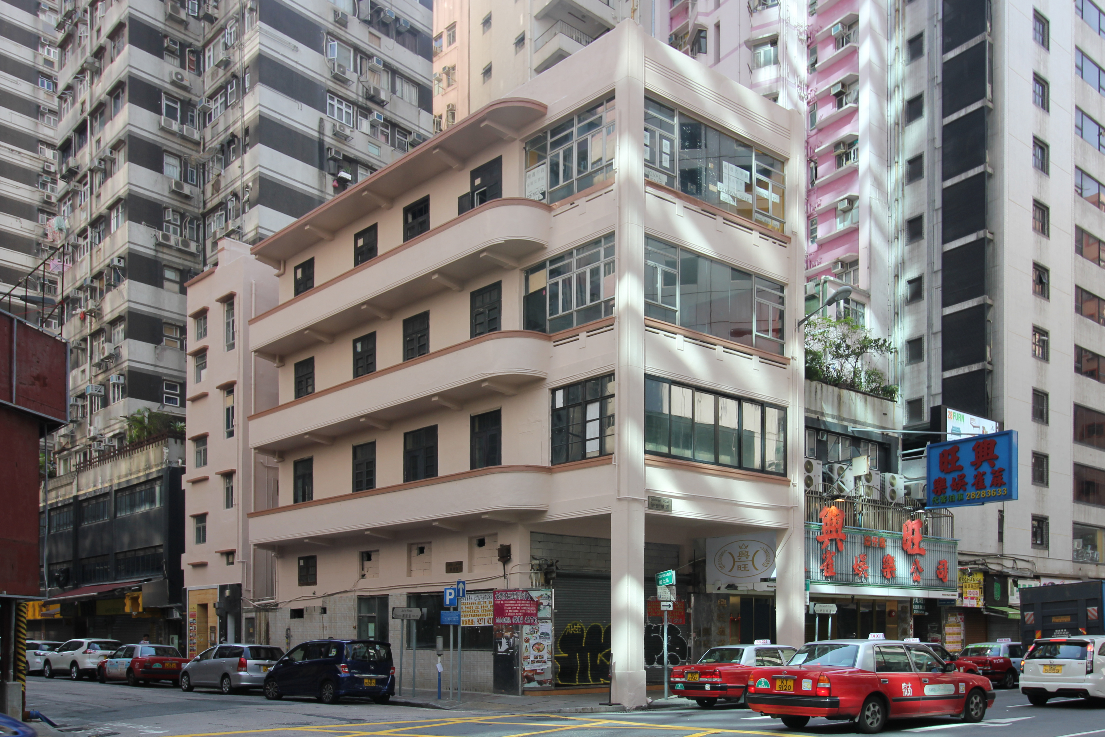 The Chinese tenement of "6 Stewart Road" is located at the corner of Jaffe Road and Stewart Road. It is a pre-war building finished in the 1920s, as one of the few remaining corner tenement houses nowadays in Hong Kong.